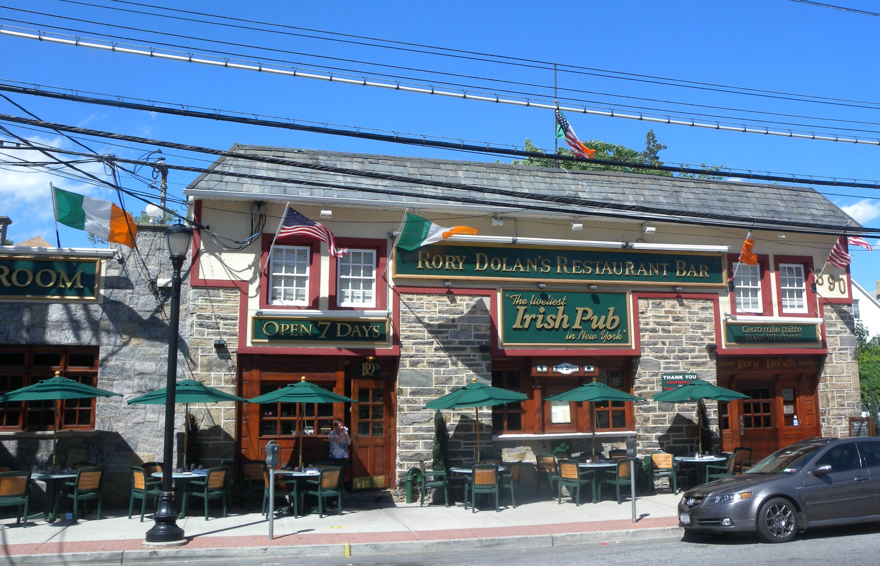 Looking north across McLean Avenue at a restaurant on a sunny afternoon.